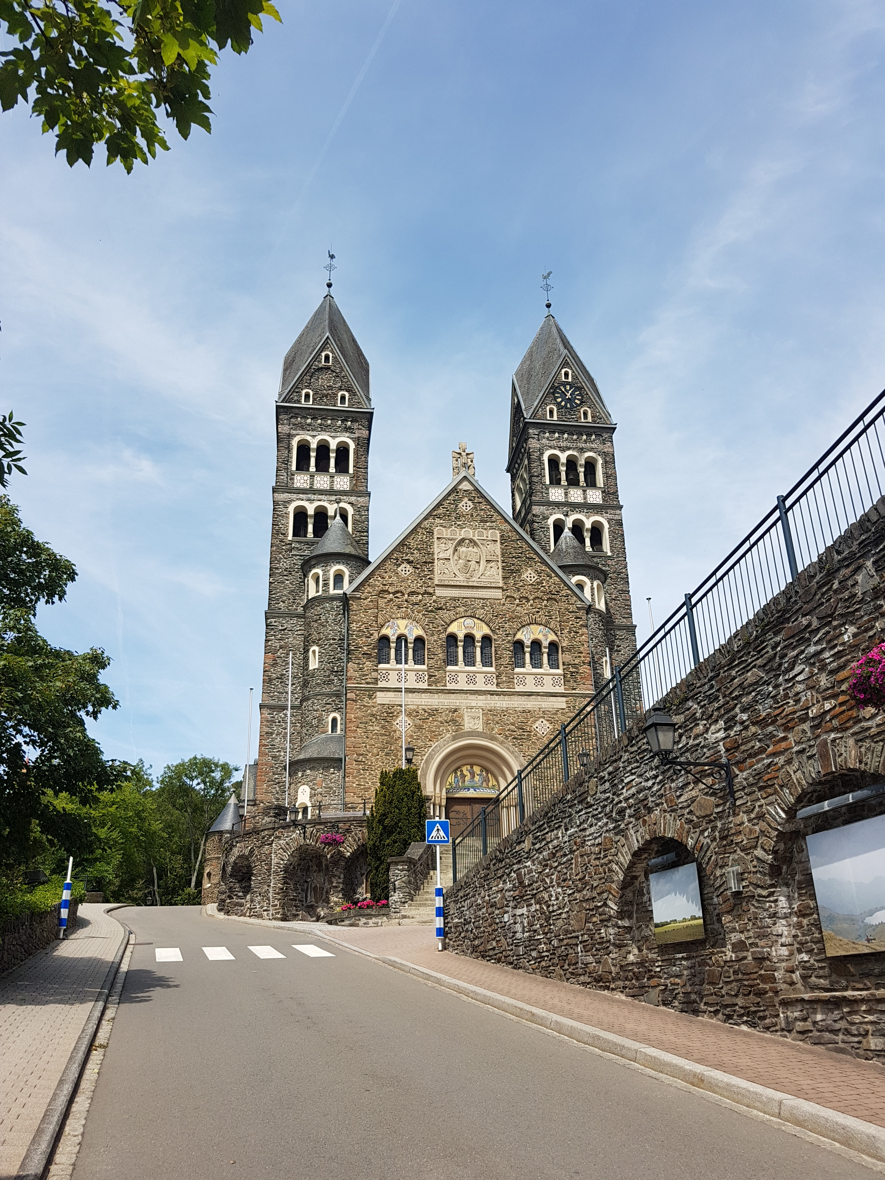 Roman Catholic Church in Clervaux (also: Church of St. Cosmas and Damian, lux .: Kierch zu Klierf; french: Église Saints-Côme-et-Damien, german: Kirche in Clerf or Kirche St. Cosmas und Damian) in the Montée de l'église (street) in the municipality of Clervaux' (lux.: Klierf